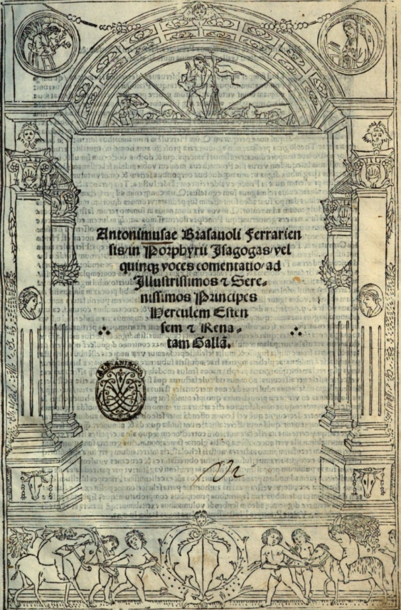 Antonius Musa Brasavolus, In_Porphyrii_Isagogas_commentatio (1530) title page